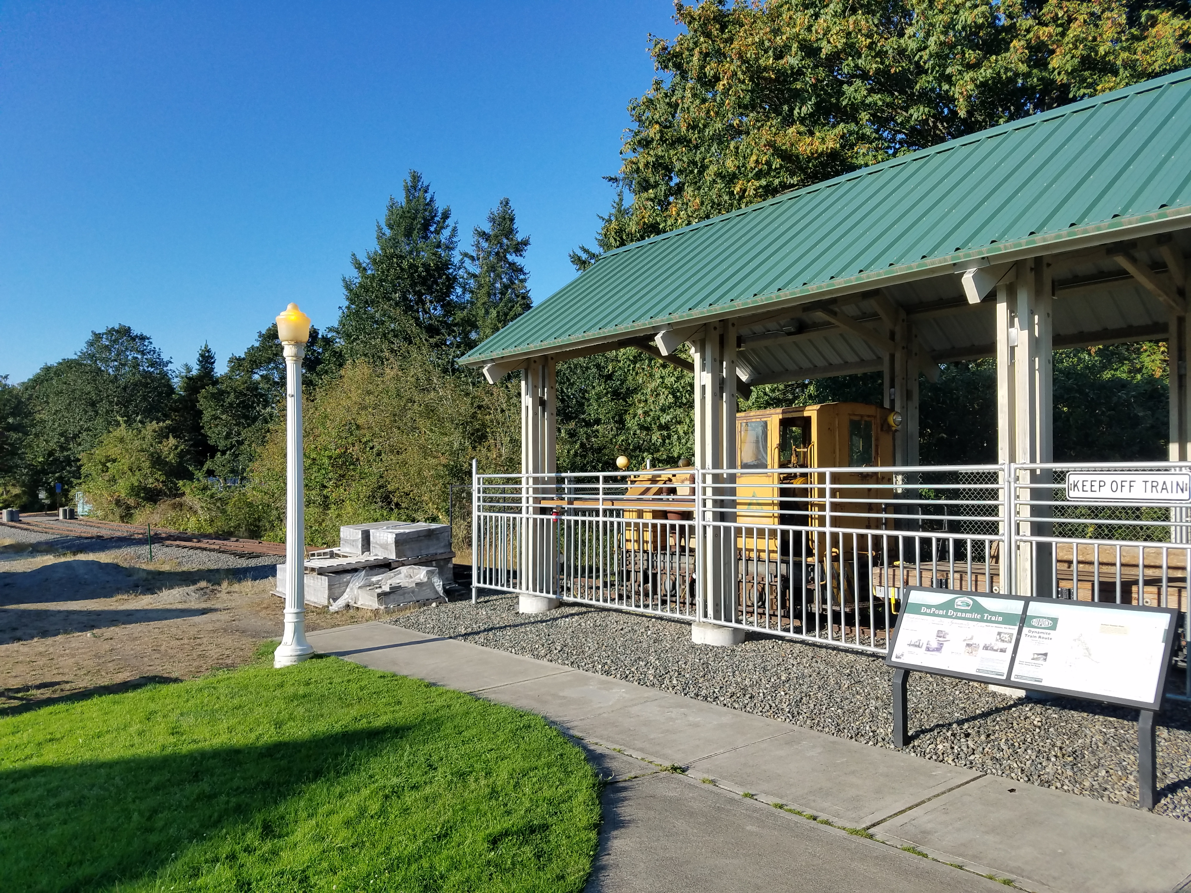 Exhibit featuring old narrow-gauge locomotive and dynamite train used by the DuPont chemical company during the company town days in DuPont, Washington, USA. The exhibit is behind the DuPont Museum in the DuPont Village Historical District.